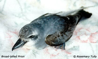 Broad-billed Prion (Pachyptila vittata) Taken by Rosemary Tully of the Whakatane Bird Rescue Centre, New Zealand